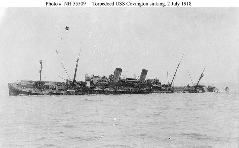 Sinking of USS Covington (ID-1409) off Brest, France